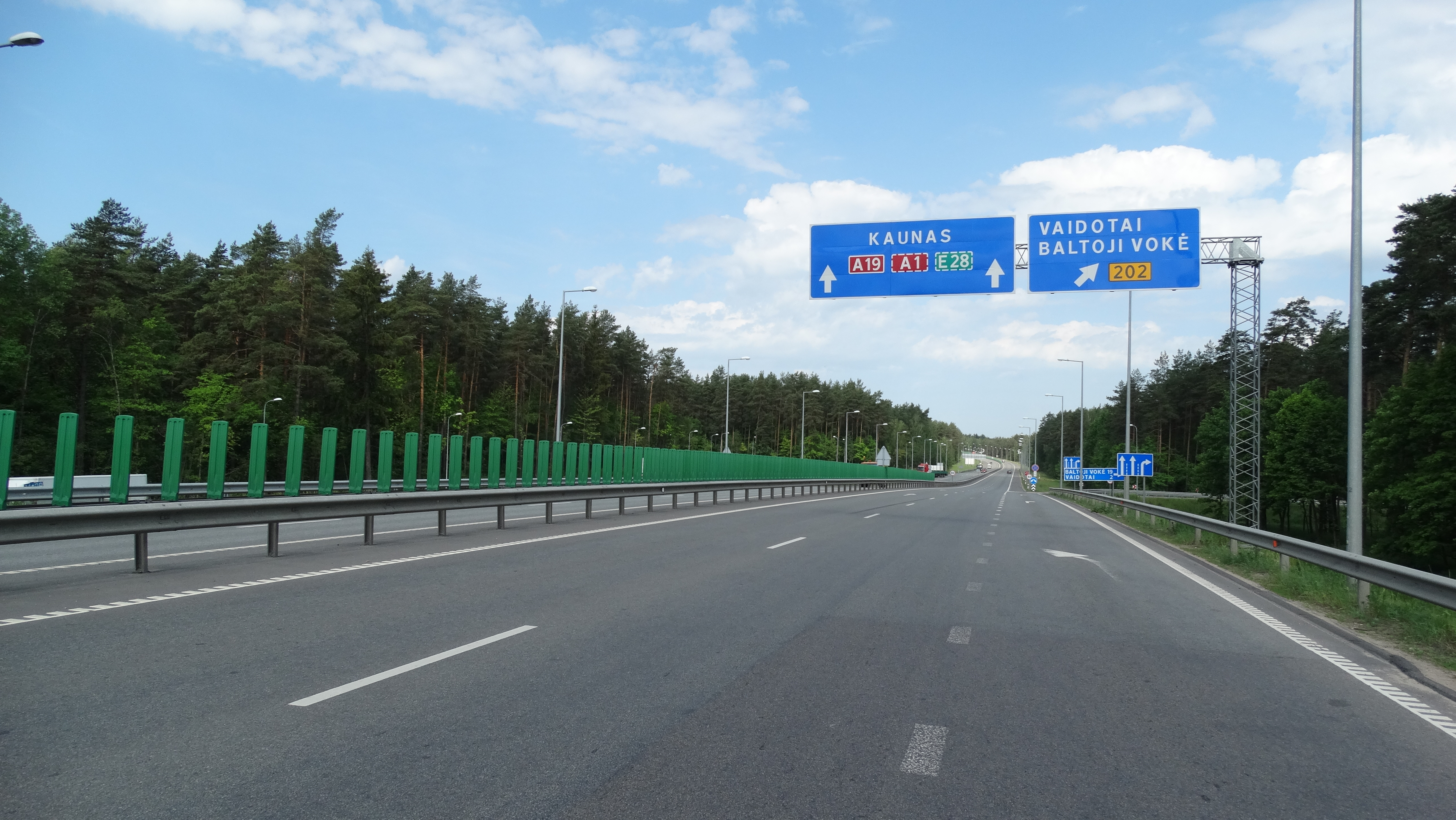 Highway A19, Vilnius District, Lithuania